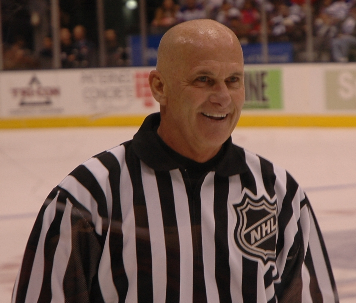 Ray Scapinello at the All-Star Legends 2008 in Toronto